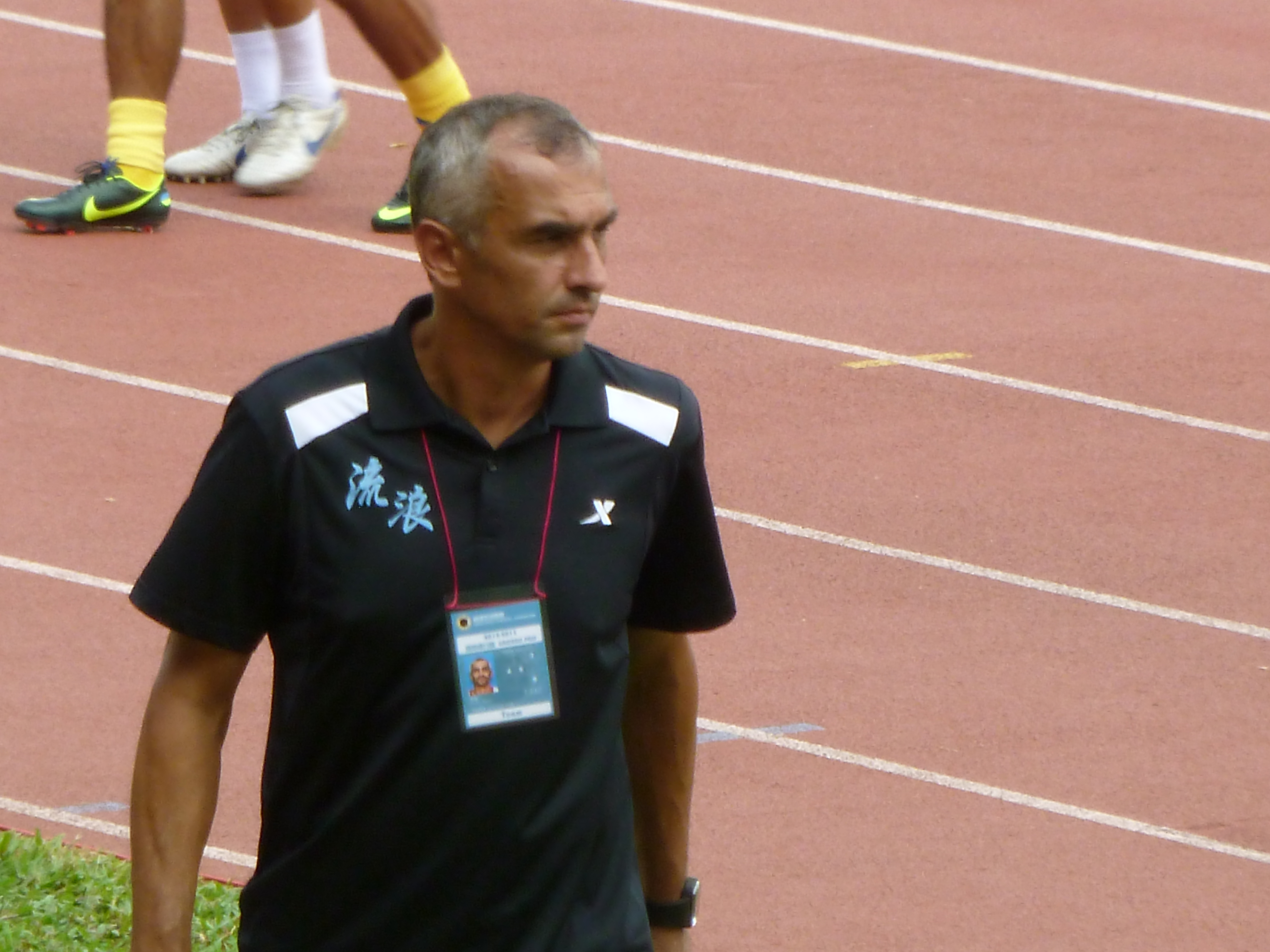 Goran Paulic (01 Sept 2012 Hong Kong First Division League, Rangers vs Southern District, Sham Shui Po Sports Ground) 中文（香港）: 高能 (01 Sept 2012 香港甲組足球聯賽, 流浪 vs 南區, 深水埗運動場)